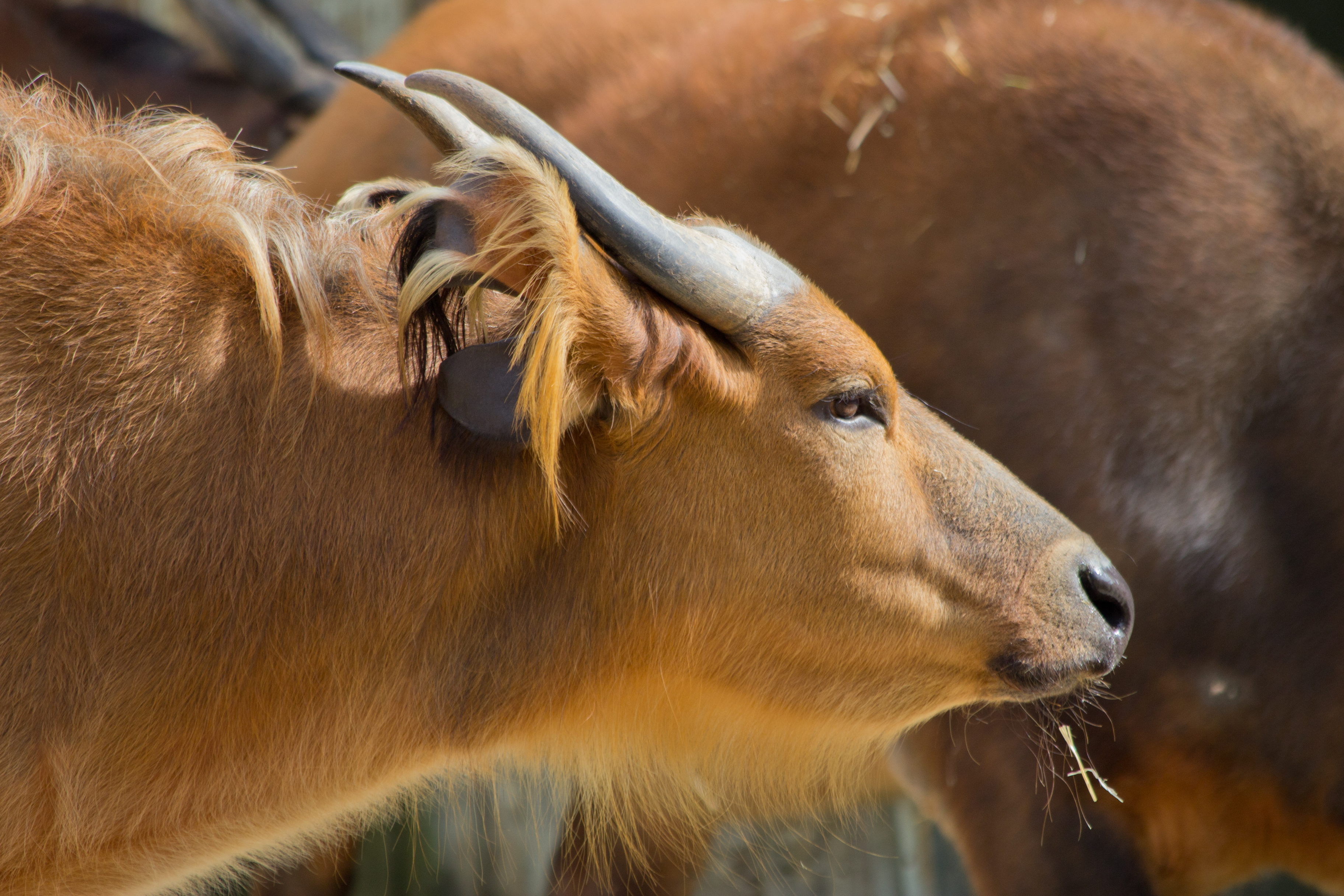 African forest buffalo (Syncerus caffer nanus) at the Zoo of Madrid, Spain.